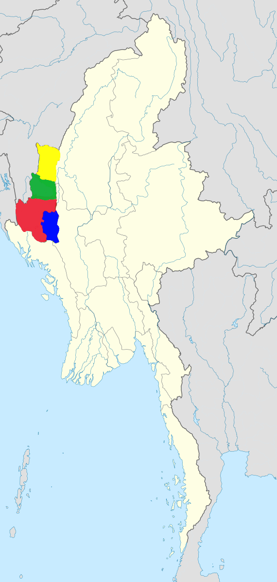 The districts of Chin State, Falam, Hakha, Mindat and the new districr, Matupi